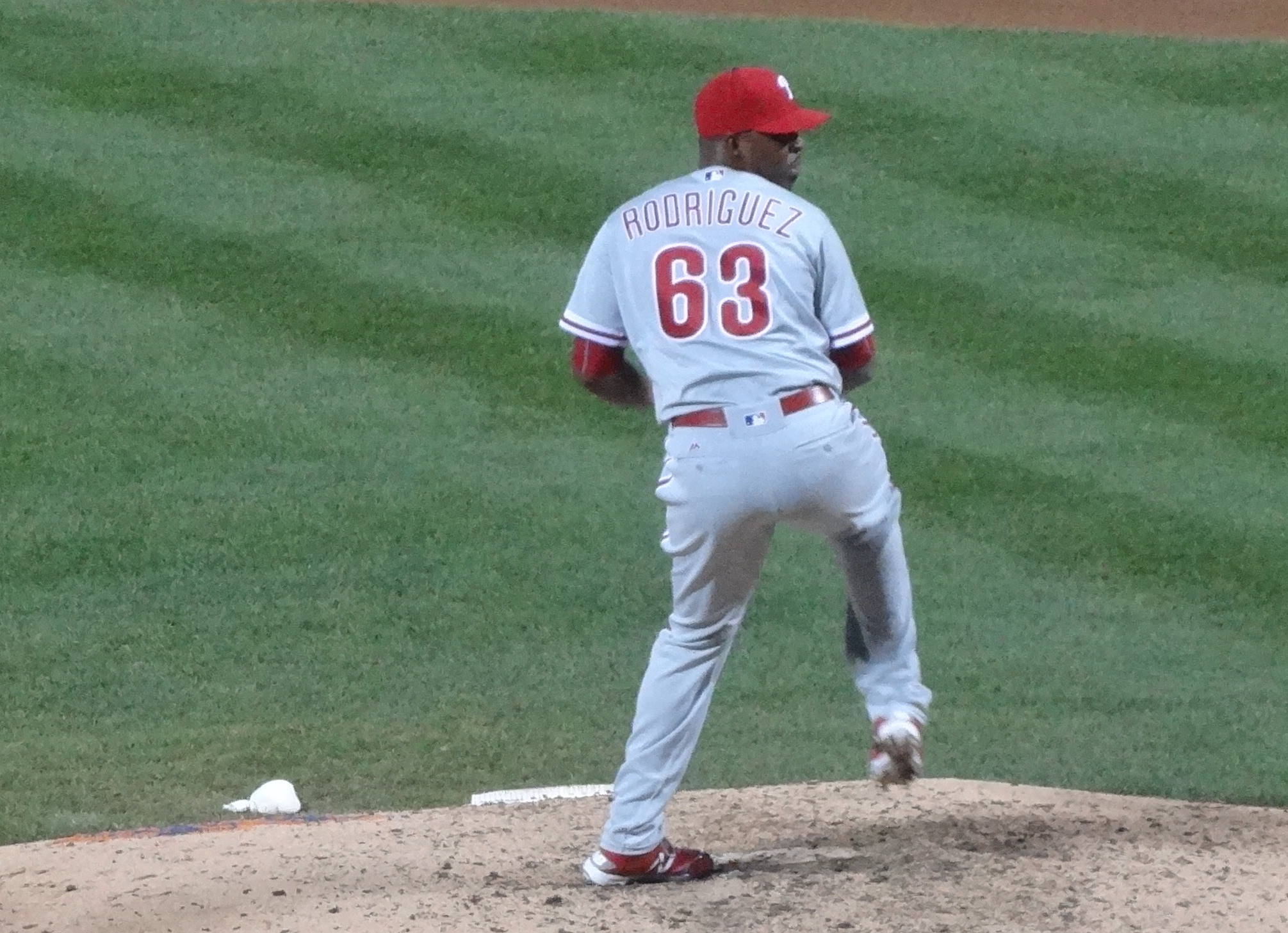 Rodríguez pitching during the 2016 season.